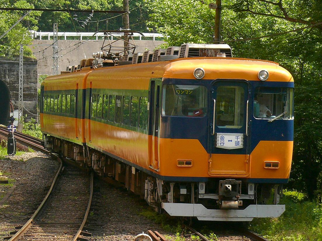 Ōigawa Railway type 16000